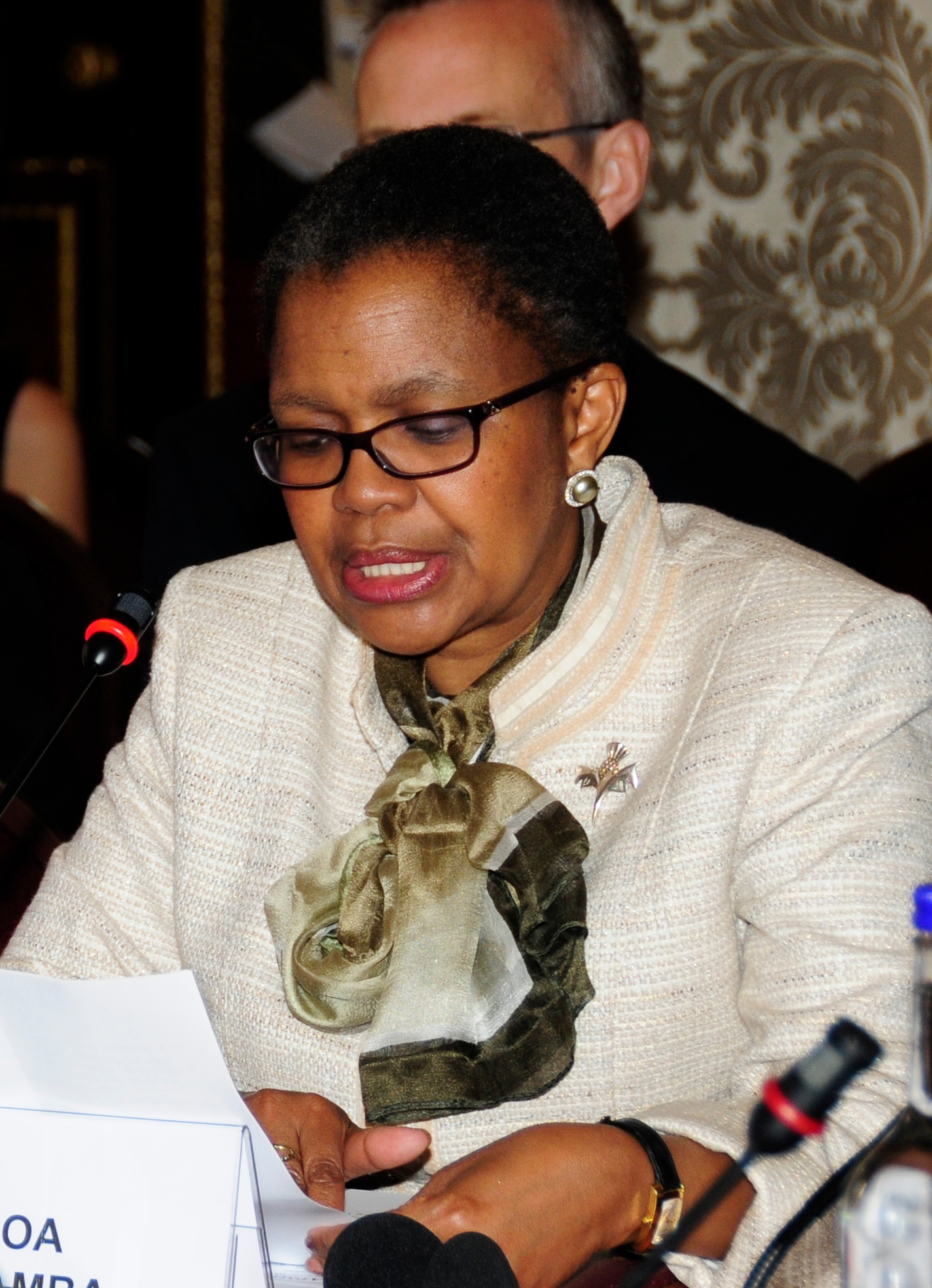 Mmasekgoa Masire-Mwamba, Deputy Secretary General of the Commonwealth Secretariat welcoming participants to Marlborough House for the UK-led seminar day for High Level Panellists on 31 October 2012.